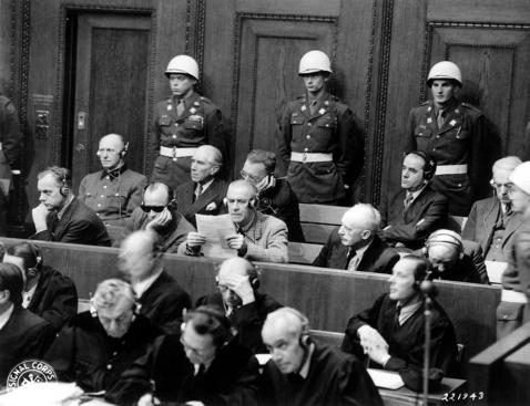 Defendants at the Nuremberg War Crimes Tribunal in the Palace of Justice Courtroom on November 27, 1945. People pictured (see also image notes) : first row, from left to right, Alfred Rosenberg (1893-1946, hanged), Hans Frank (1900-1946, hanged), Wilhelm Frick (1877-1946, hanged), Konstantin von Neurath (1873-1956), Walther Funk (1890-1960) ; second row, Alfred Jodl (1890-1946, hanged), Franz von Papen (1879-1969), Arthur Seyss-Inquart (1892-1946, hanged), Albert Speer (1905-1981), Julius Streicher not firmly identified (1885-1946, hanged).